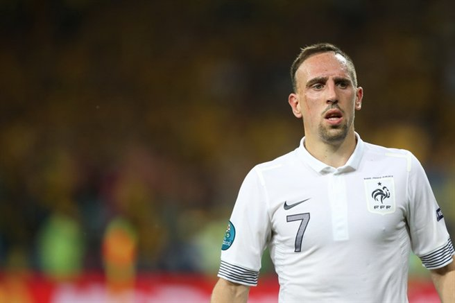 Franck Ribéry at the Euro 2012 match against Sweden